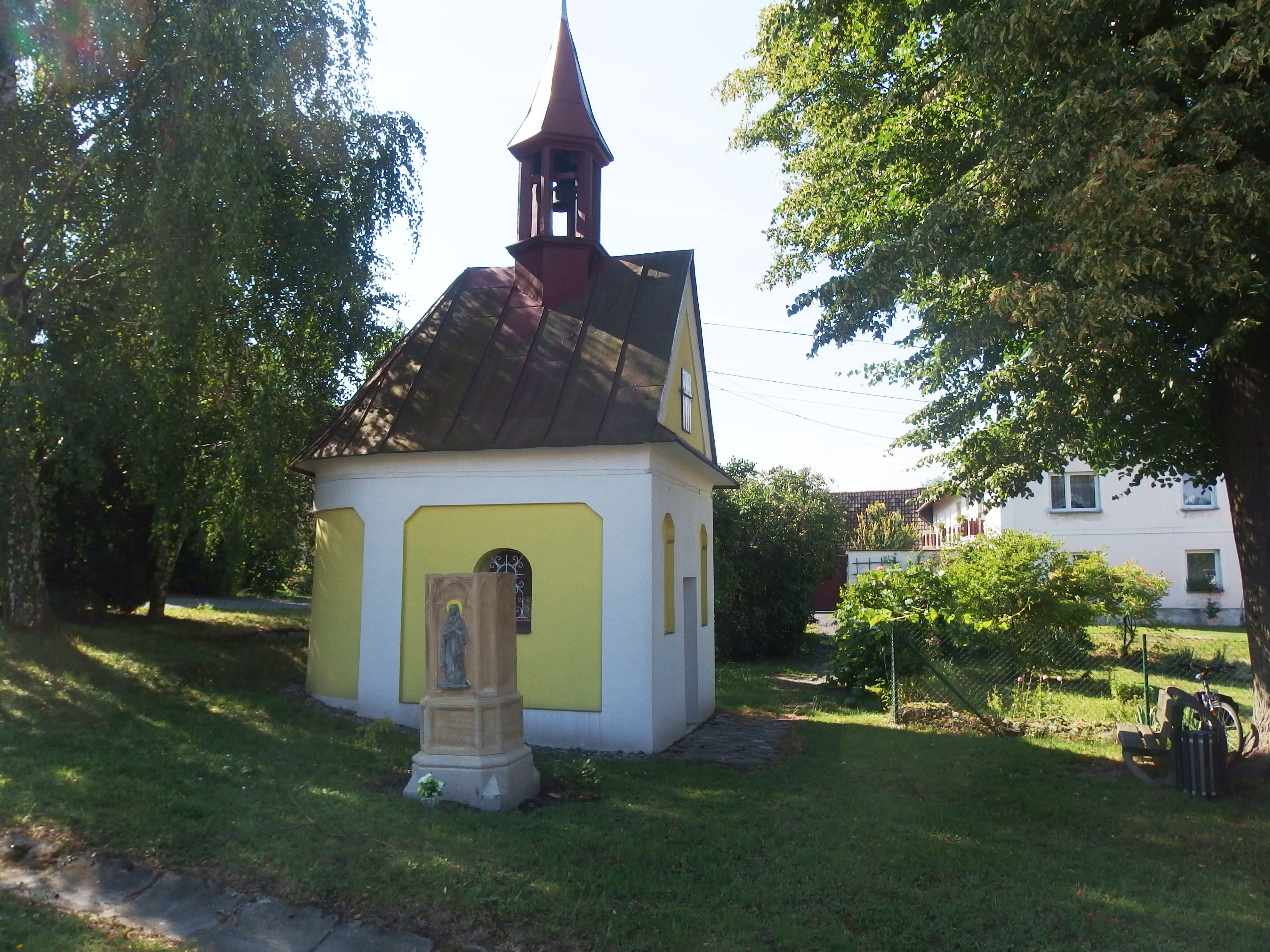 Starý Jičín, Nový Jičín District, Czech Republic, part Dub.